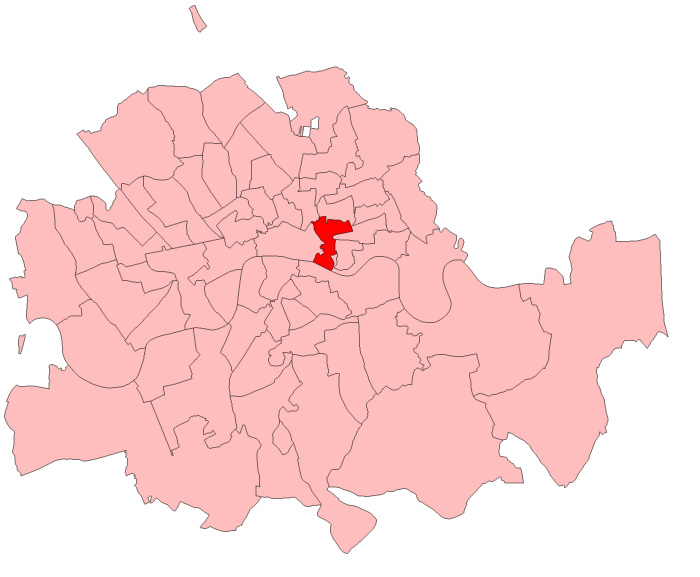 A map of Whitechapel constituency within the Metropolitan Board of Works area, as it existed from 1885 to 1918.